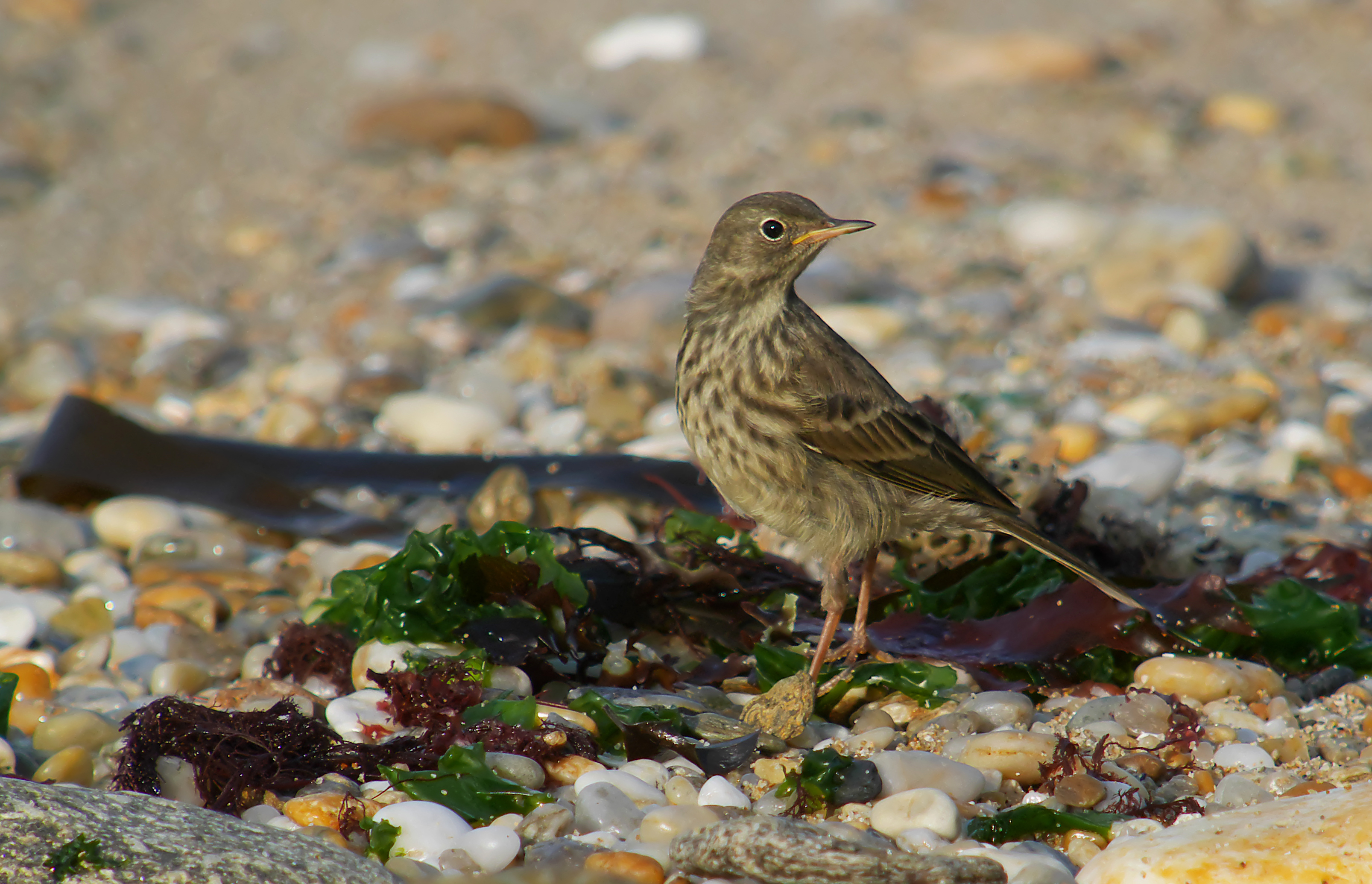 Digiscoping with Swarovski ATM 80 HD 30 X, Panasonic GX7 + Lumix G 20mm F1.7 ASPH lens (Adapter DCB)